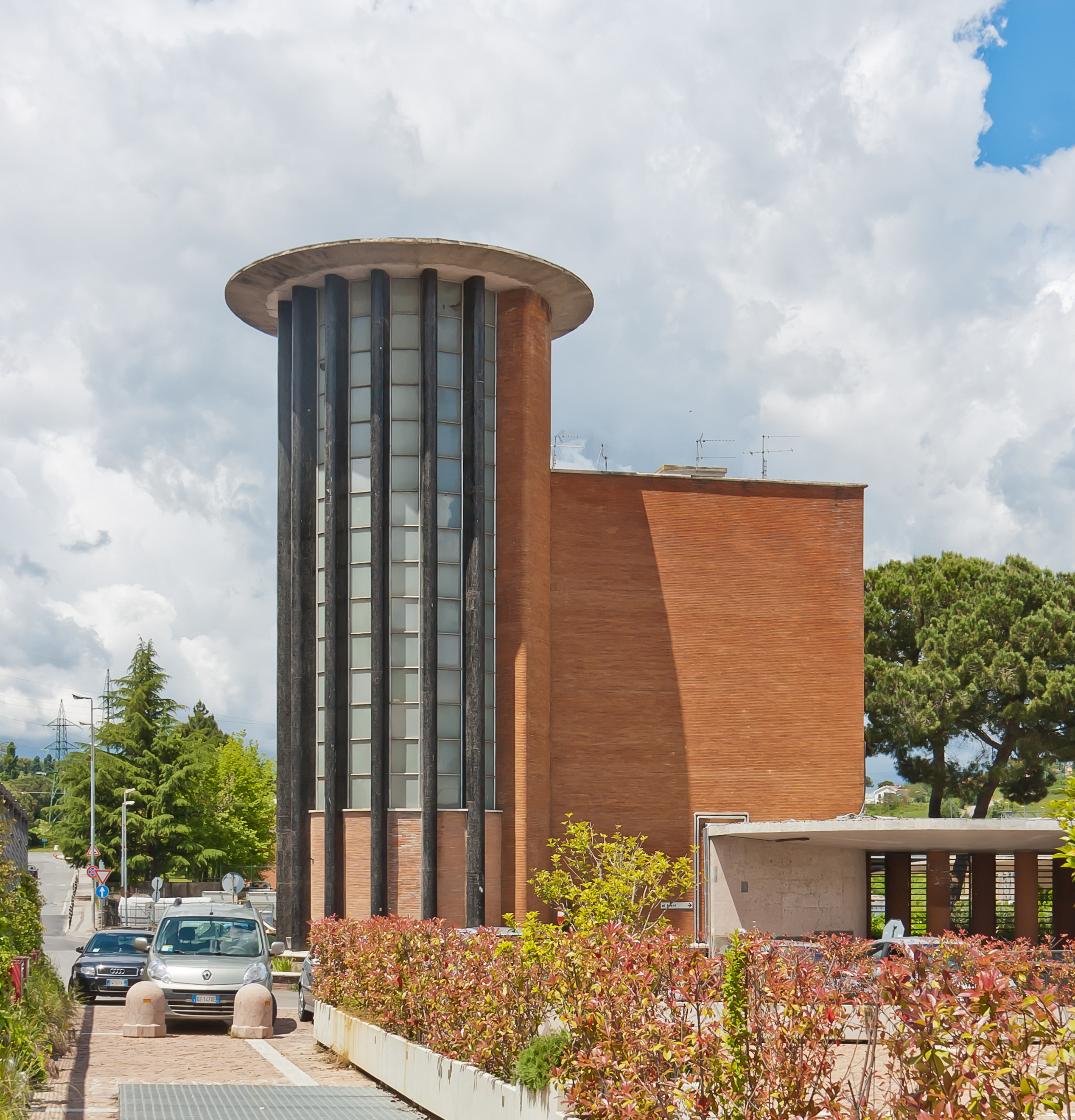 Train station of Siena, Tuscany, Italy. "Il fabbricato Alloggi"